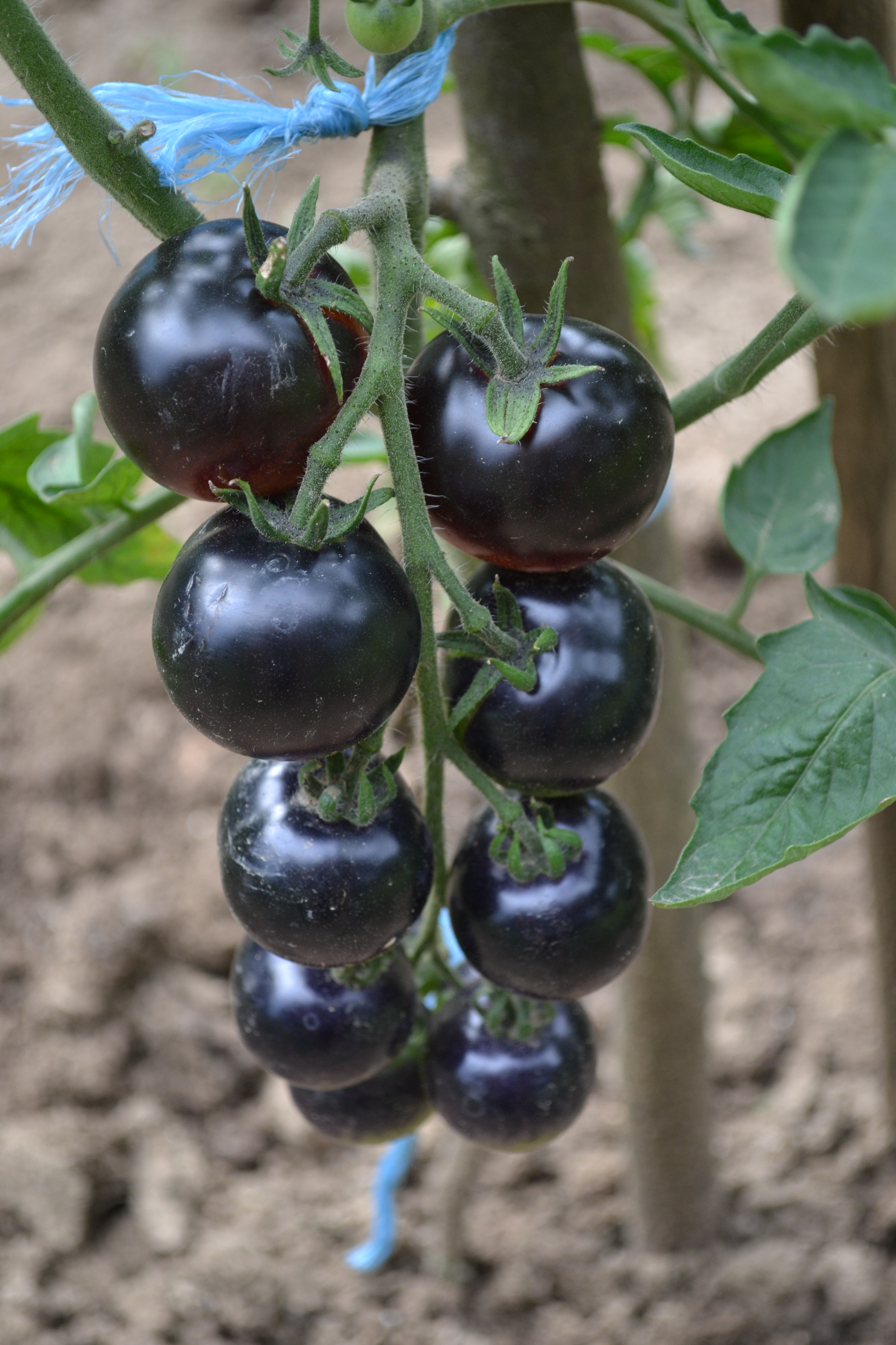 Black tomatoes (Indigo Rose) in Lučenec (Slovakia)